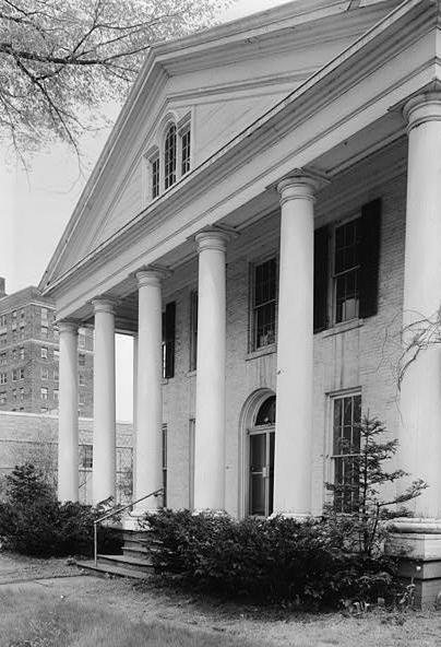 Ansley Wilcox House (Theodore Roosevelt Inaugural National Historic Site), 641 Delaware Avenue, Buffalo, Erie County, NY. May 1965, WEST (FRONT) ELEVATION FROM SOUTHWEST.